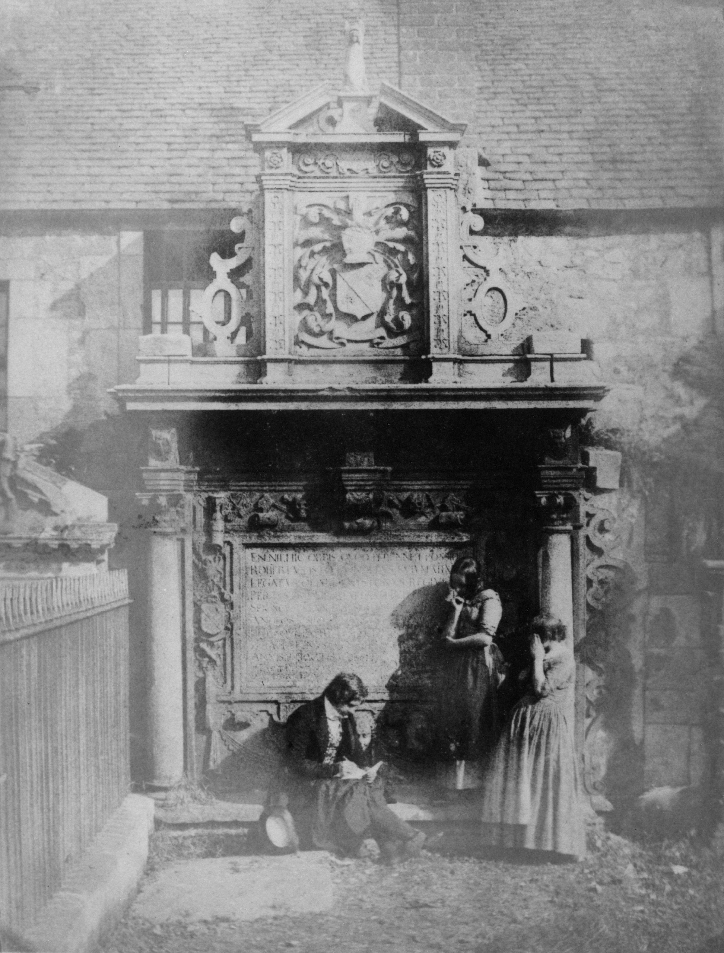 Greyfriars Churchyard, Edinburgh, given to the National Portrait Gallery, London in 1973. All images in this batch have been confirmed as author died before 1939 according to the official death date listed by the NPG.